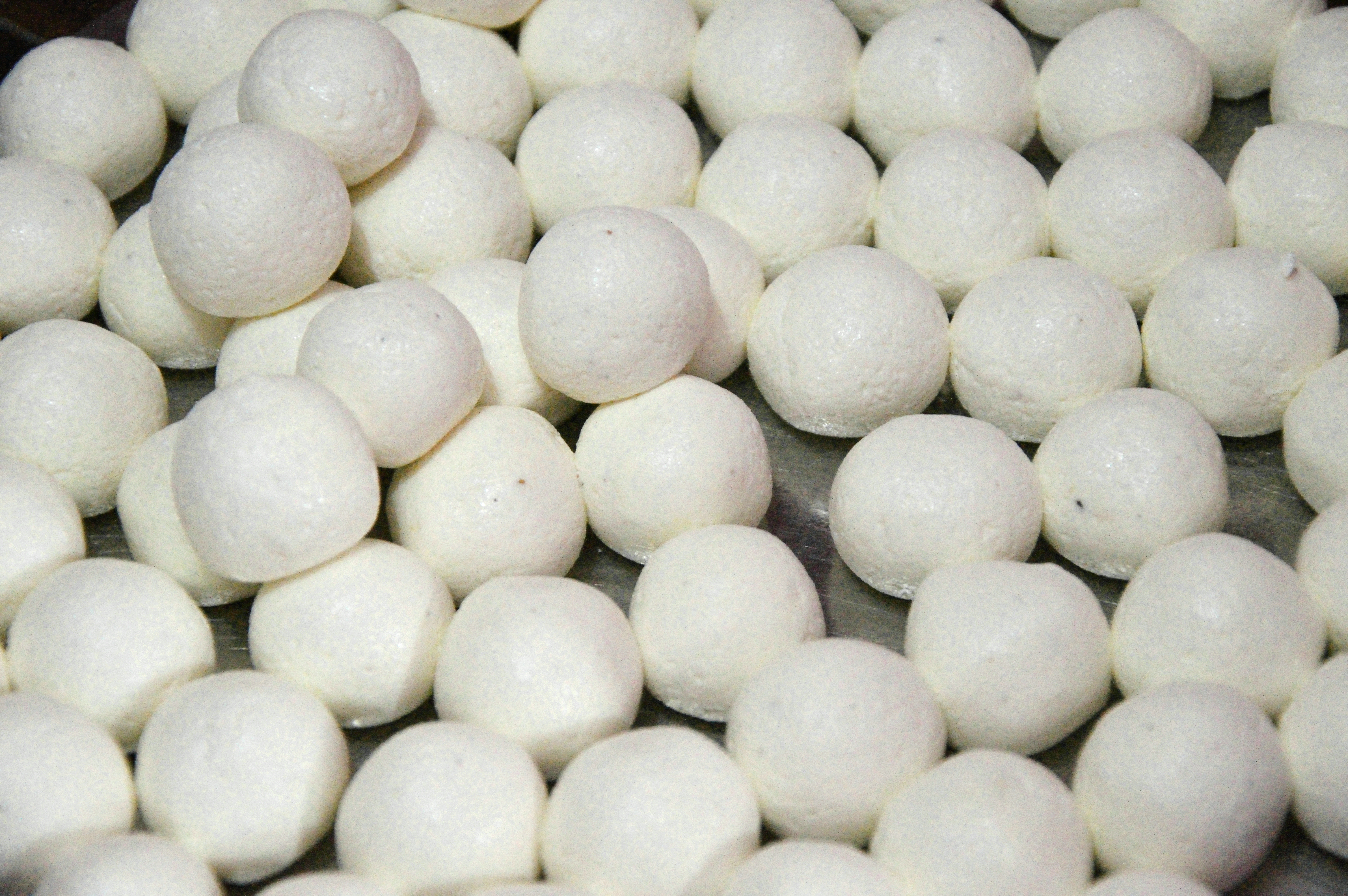 This photpgraph has been taken at the Ma Tilottama Sweets at the Holiday Home market, New Digha, East Midnapore.